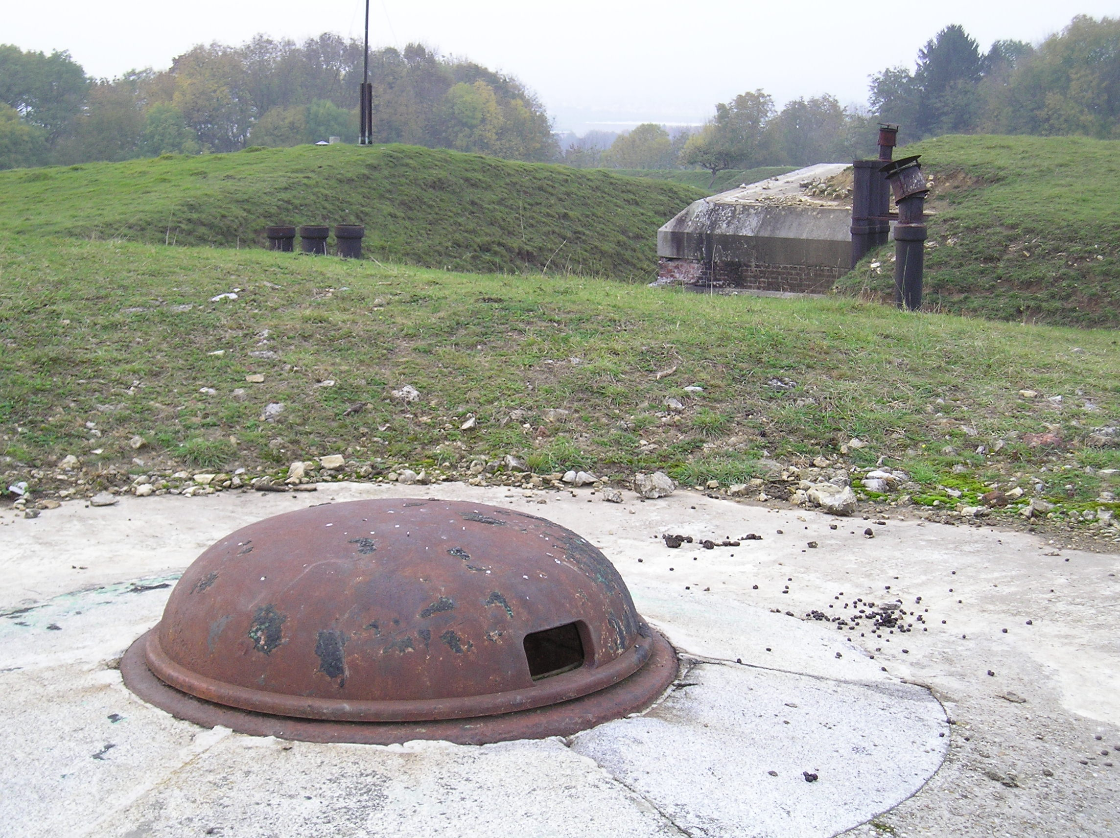 Armored observation post in Fort Prinz Karl near Ingolstadt (Bavaria, Germany), 2007